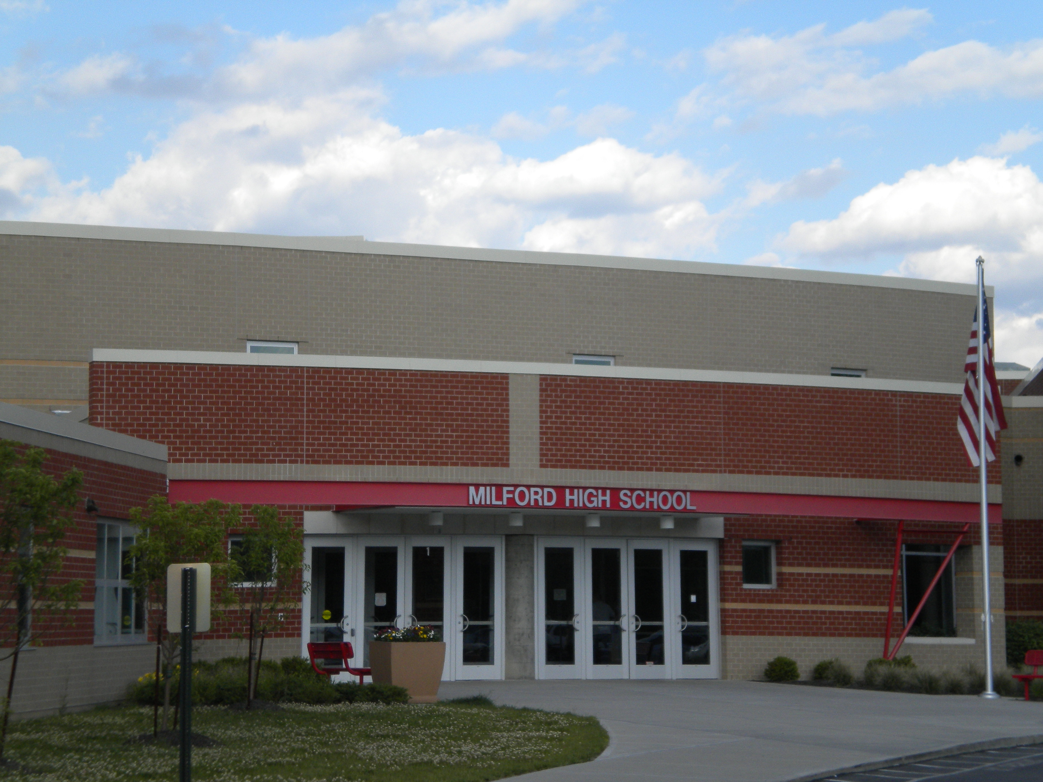 Main Entrance, Milford High School, Ohio